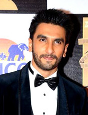 Ranveer Singh at Zee Cine Awards 2016